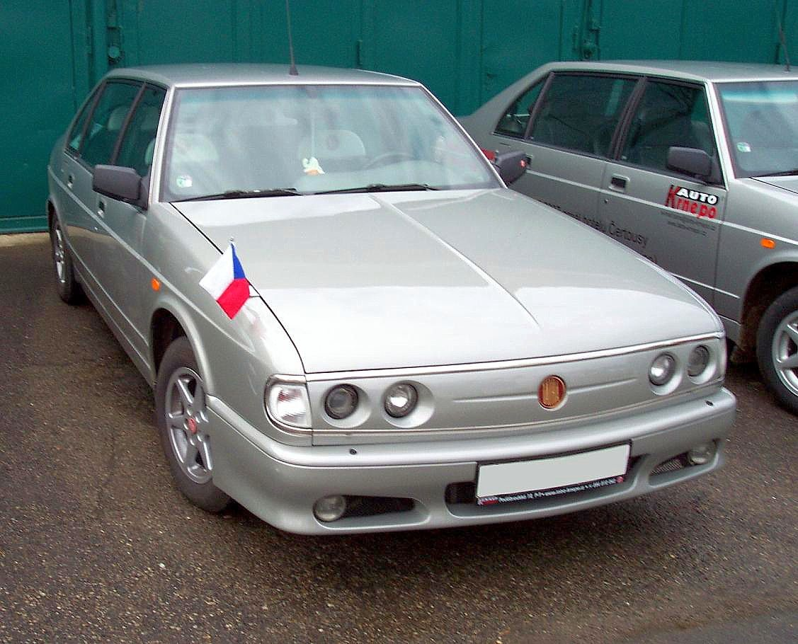 Tatra 700 car in VTM Lešany